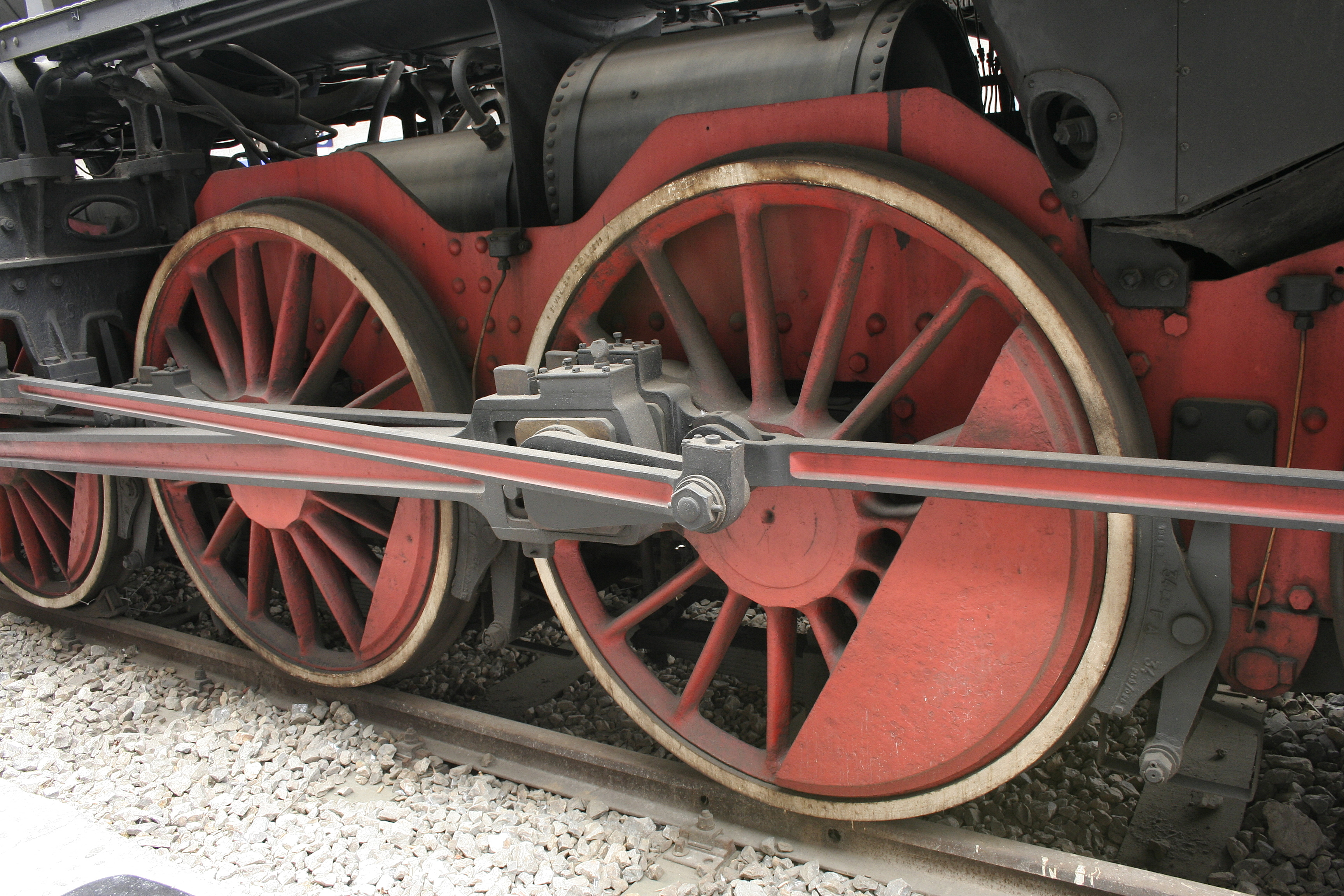 Driver wheels of locomotive FS 744